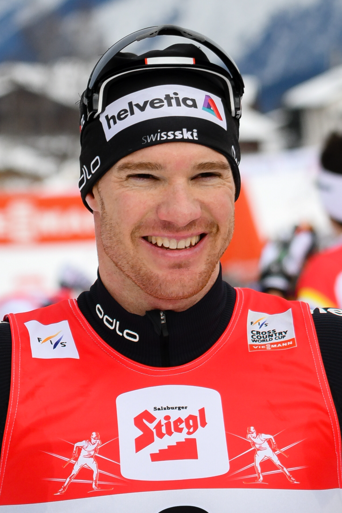 Seefeld-Triple 2018, third day January 28th. Picture shows COLOGNA Dario (SUI).